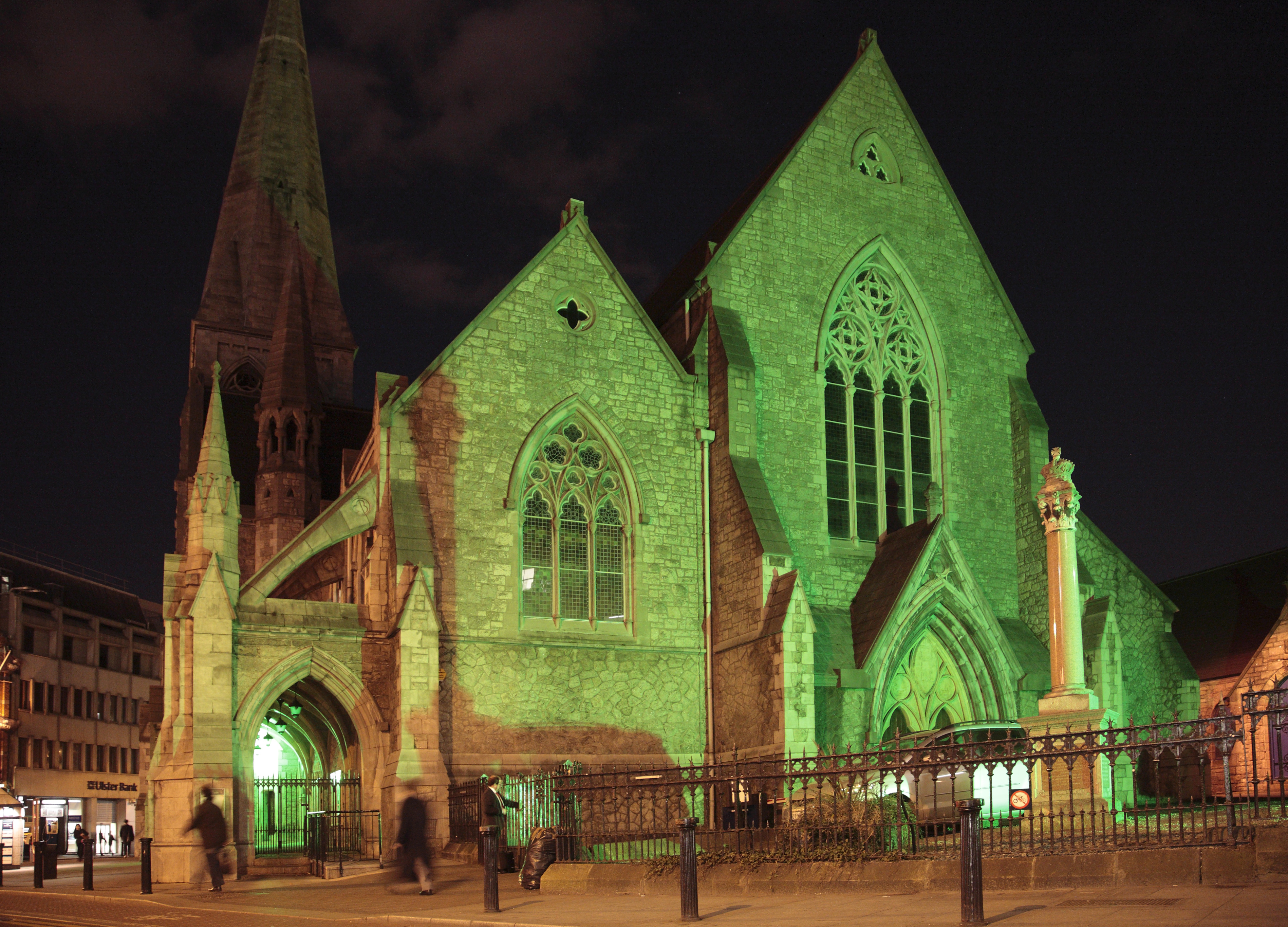 St. Andrew's Church on Andrew Street, Dublin, Republic of Ireland, photographed in green illumination on St. Patrick's Day (17 March) 2010